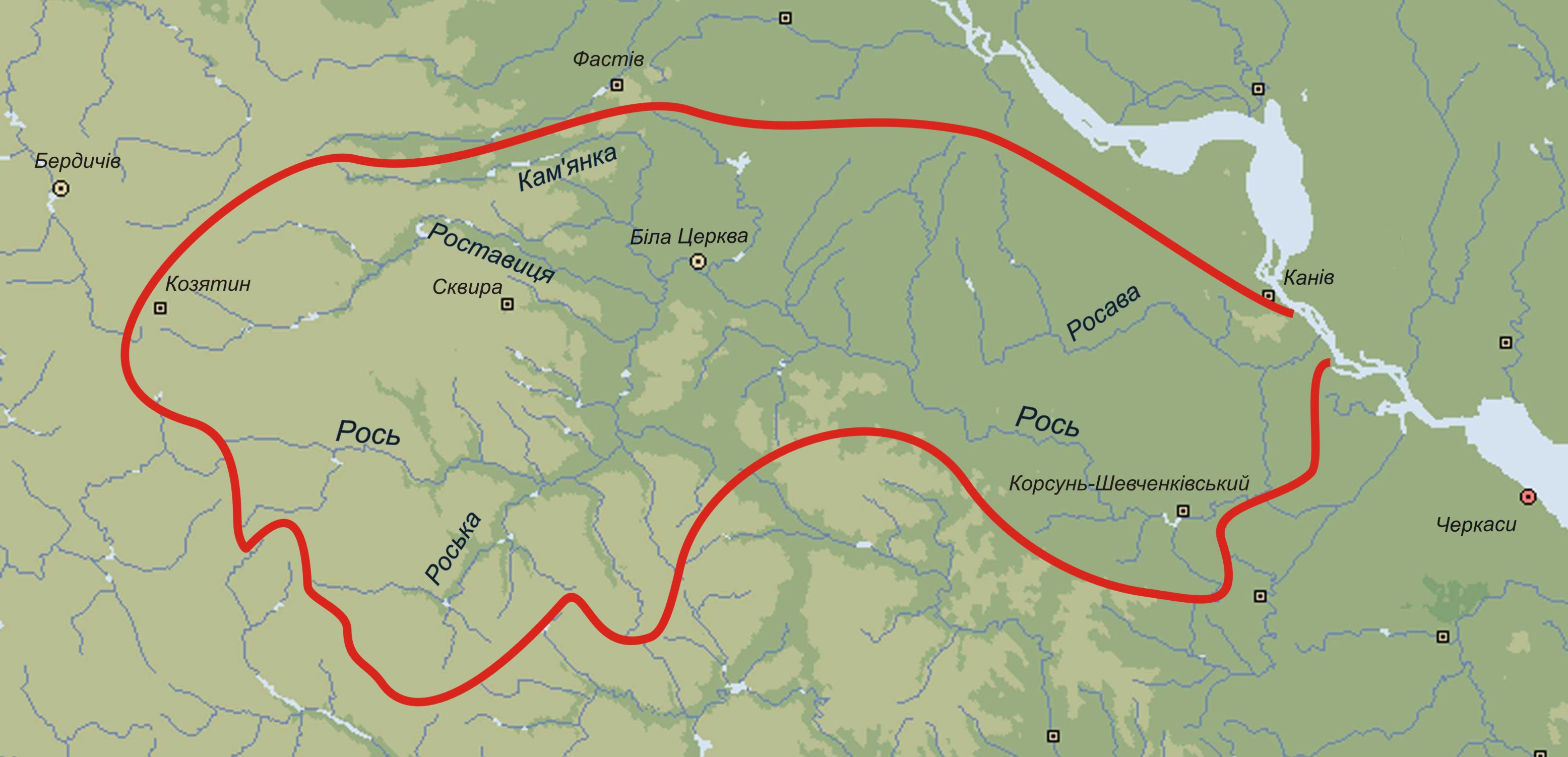 Ros river basin